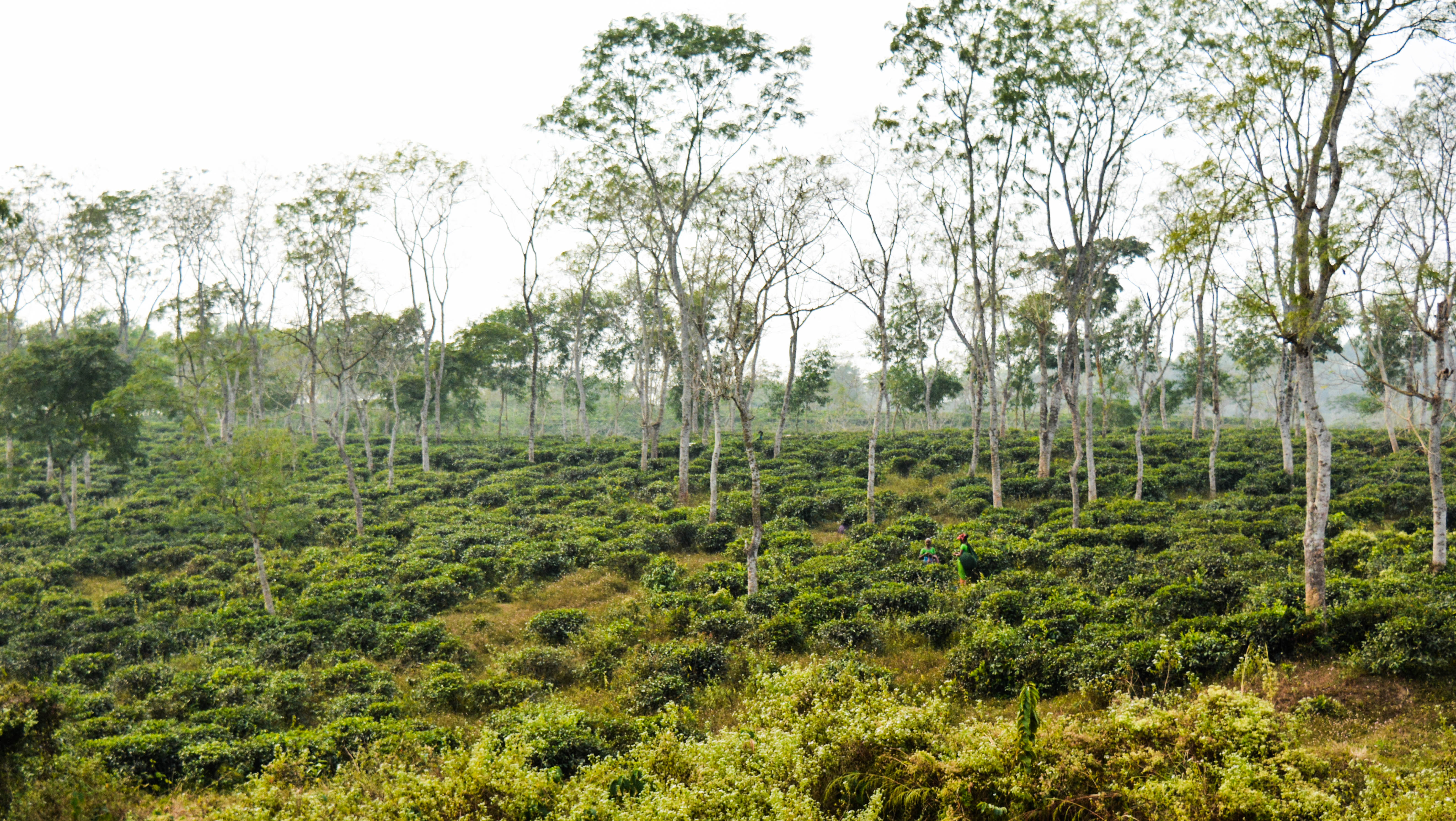 Srimongol is called the land of two leaves and a bud.Srimongal is the place of green environment in Bangladesh. Surrounding this place there are tea gardens, forest areas and hills. It is most wonderful place to have a holiday in Sylhet division. It is well known for the biggest tea gardens of world. It covered by blossoming green carpet.